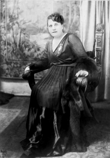 German singer Anna Erler-Schnaudt (1878—1963); the picture is signed for Nicolas Manskopf.